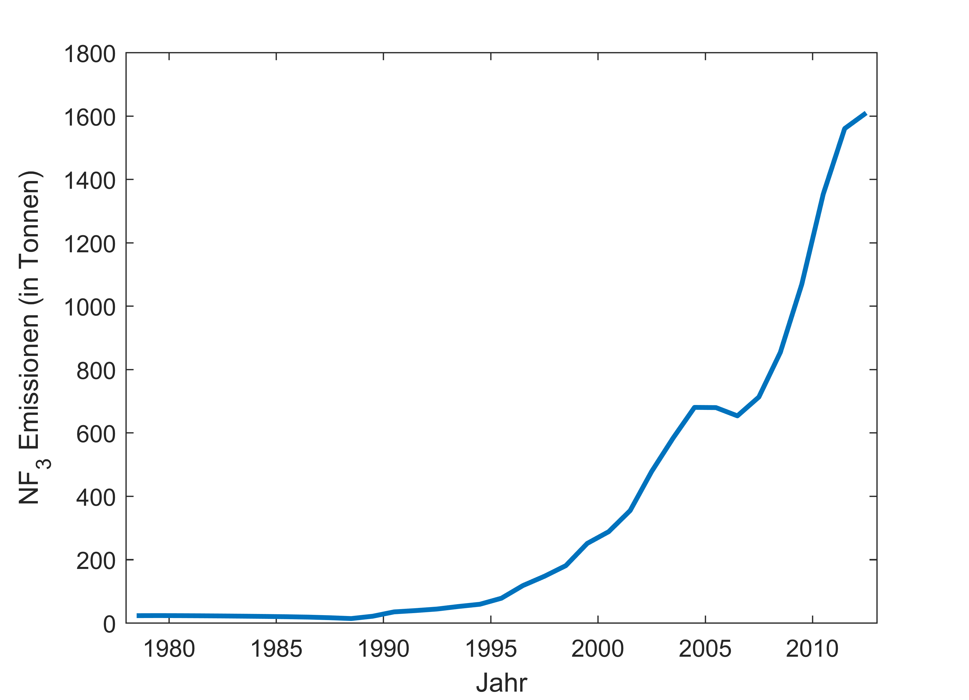 Annual NF3 emissions according to Rigby et al. (2014), "Recent and future trends in synthetic greenhouse gas radiative forcing", published in GRL (